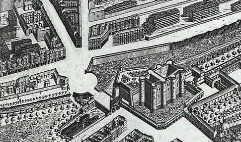 Map of Paris called "Plan de Turgot"